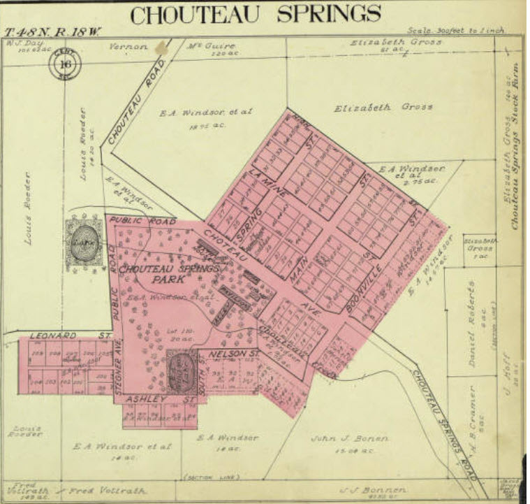 1915 map image of Chouteau Springs, Cooper County, Missouri